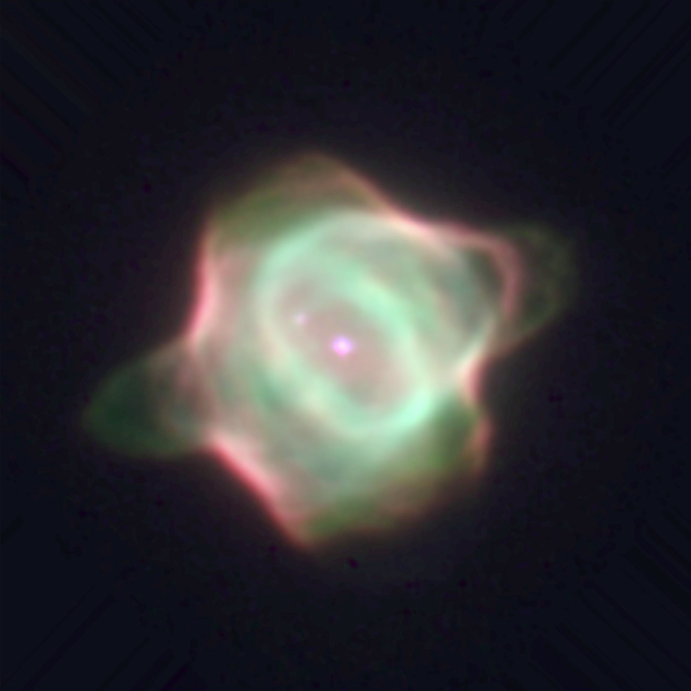 This Wide Field and Planetary Camera 2 image captures the infancy of the Stingray nebula (Hen-1357), the youngest known planetary nebula.In this image, the bright central star is in the middle of the green ring of gas. Its companion star is diagonally above it at 10 o'clock. A spur of gas (green) is forming a faint bridge to the companion star due to gravitational attraction. The image also shows a ring of gas (green) surrounding the central star, with bubbles of gas to the lower left and upper right of the ring. The wind of material propelled by radiation from the hot central star has created enough pressure to blow open holes in the ends of the bubbles, allowing gas to escape. The red curved lines represent bright gas that is heated by a "shock" caused when the central star's wind hits the walls of the bubbles. The nebula is as large as 130 solar systems, but, at its distance of 18,000 light-years, it appears only as big as a dime viewed a mile away. The Stingray is located in the direction of the southern constellation Ara (the Altar). The colors shown are actual colors emitted by nitrogen (red), oxygen (green), and hydrogen (blue).